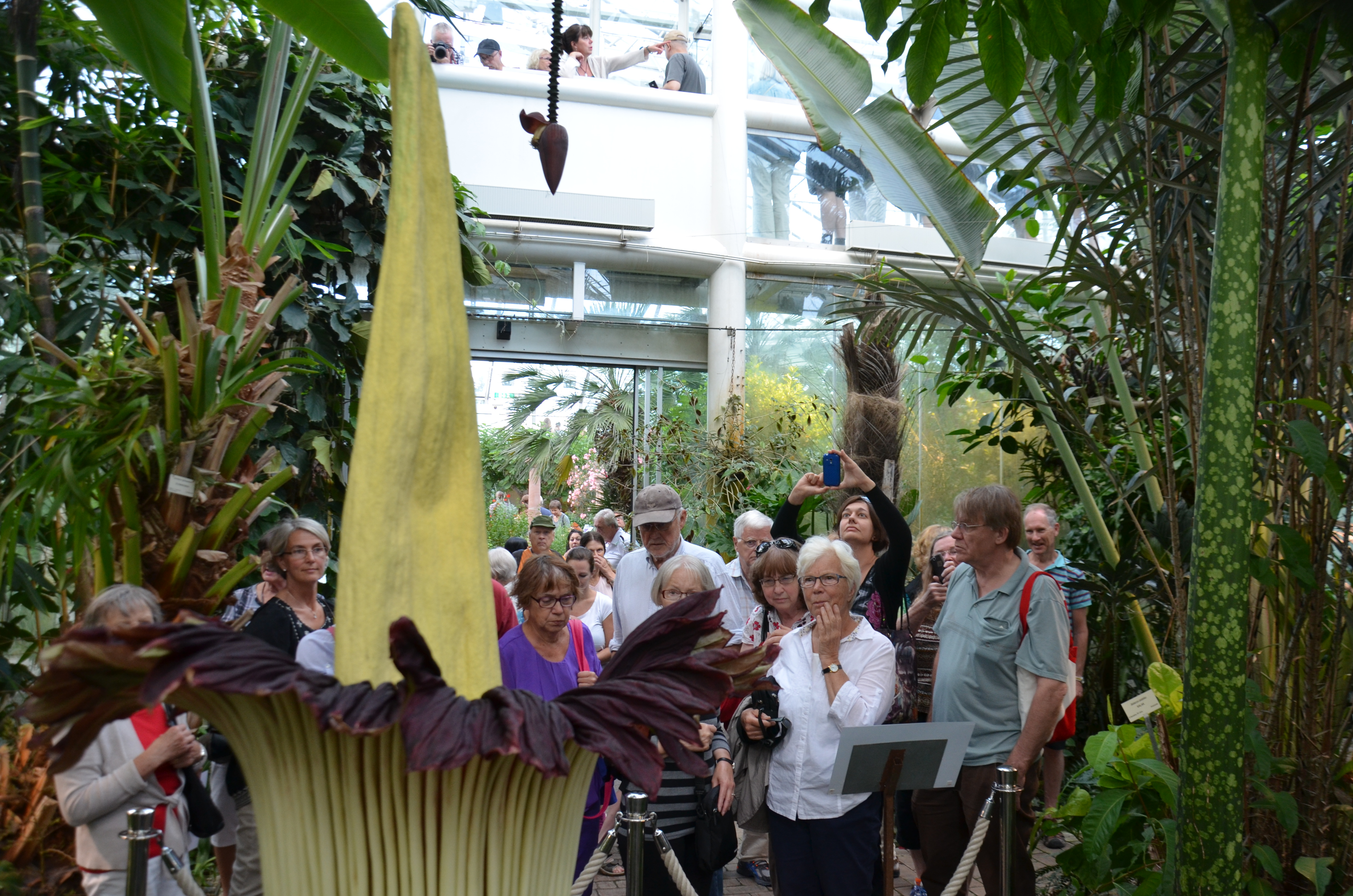 Amorphophallos titanum at Bergianska trädgården 10 July 2013. Visitors looking at the flower of Crius.